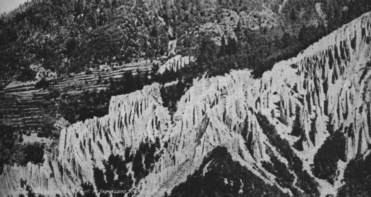 The earth pyramids of Segonzano at their full extension, at the end of the XIX century.